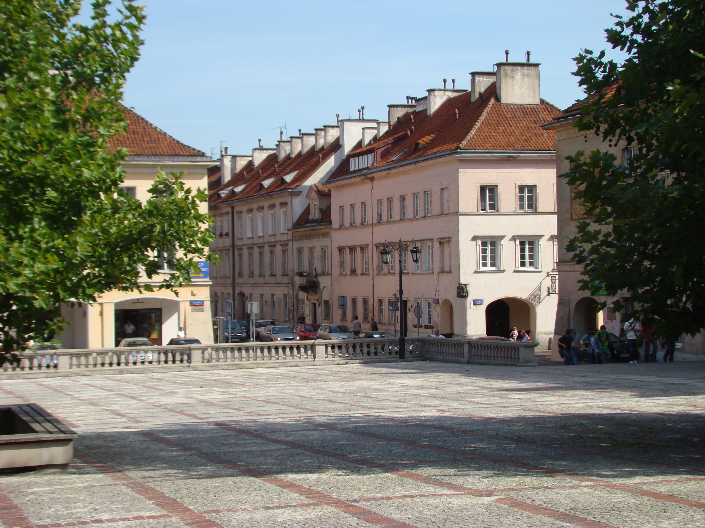 Mariensztat Market Square, Warsaw